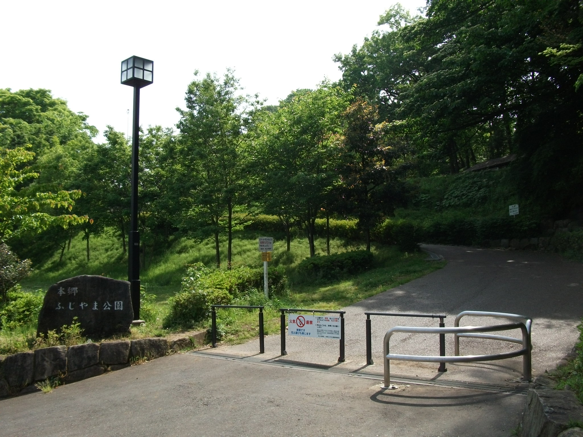 Hongō Fujiyama Park (Yokohama, Japan)